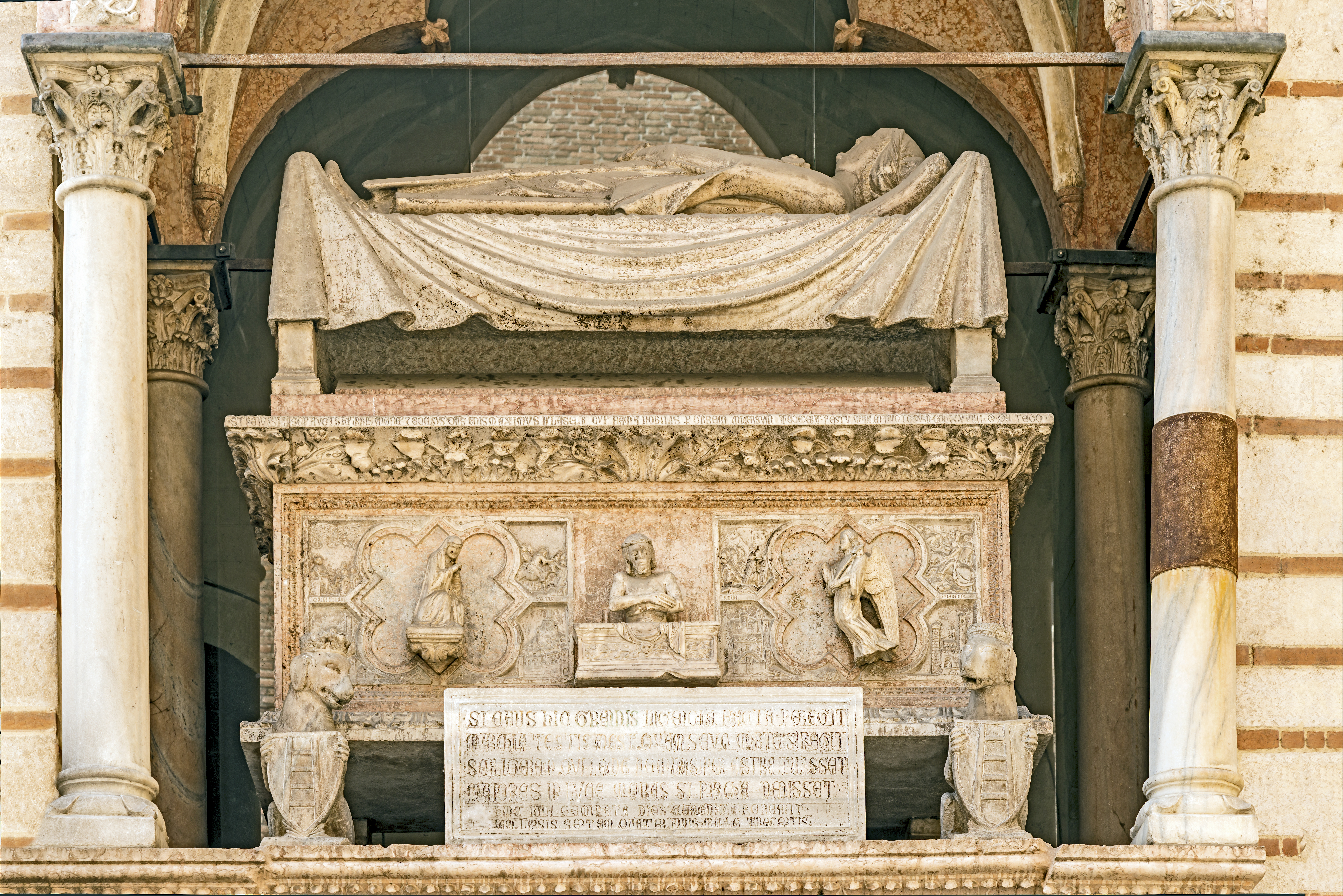 Scaliger Tombs in Verona. Santa Maria Antica church and the tomb of Cangrande I della Scala.